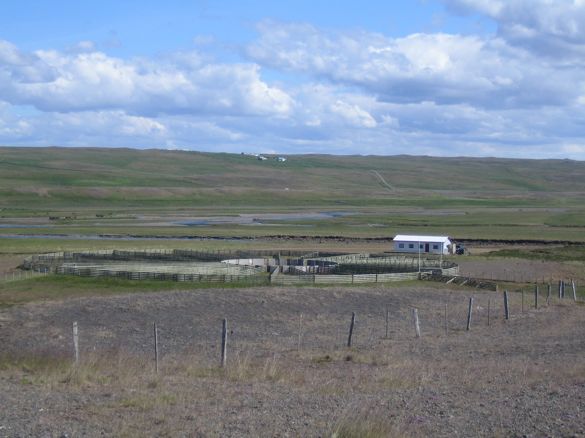 Sheep sorting pen Miðfjarðarétt in V-Húnvavatnssýsla